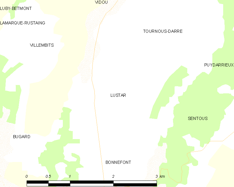 Map of French municipality